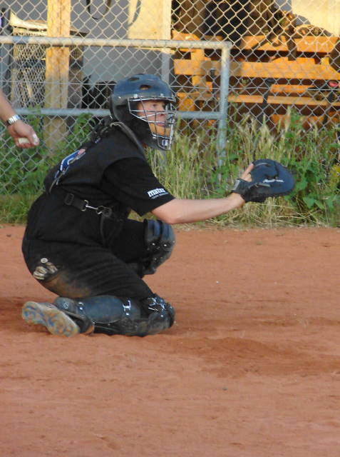 Softball catcher